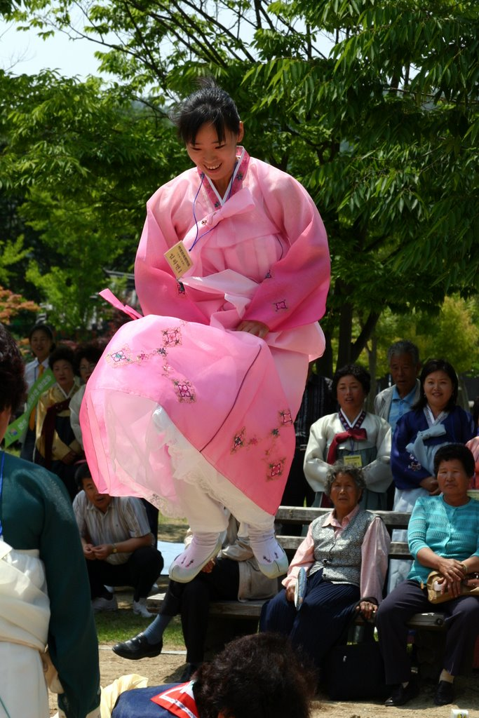 "The 5th Women Folk Plays for Dano Festival" held in a yard of the Andong Folk Museum in Andong City, Gyeongsangbuk-do, South Korea on June 11, 2007.